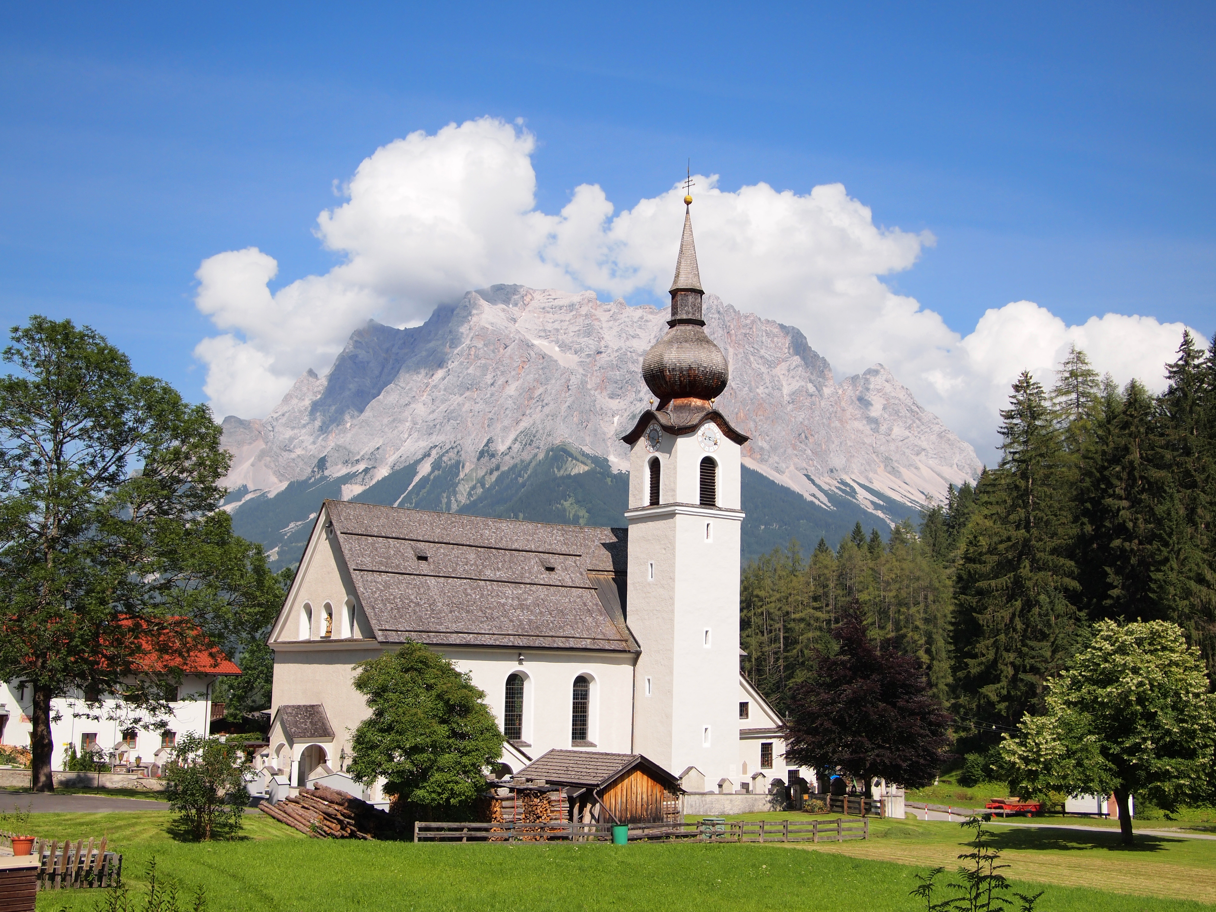 Church in Biberwier, Austria. On the background is mountain. This photograph was taken with an Olympus E-PL1